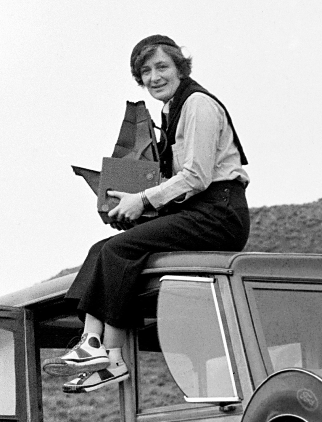 Dorothea Lange, 1936 portrait